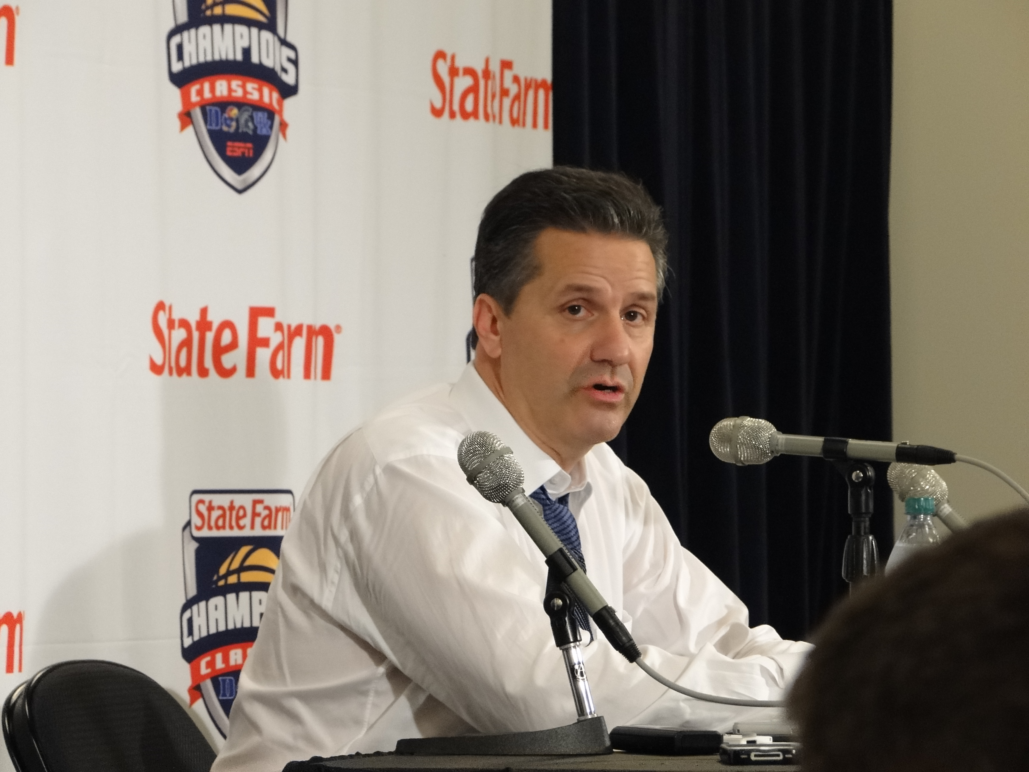 John Calipari in November 2011